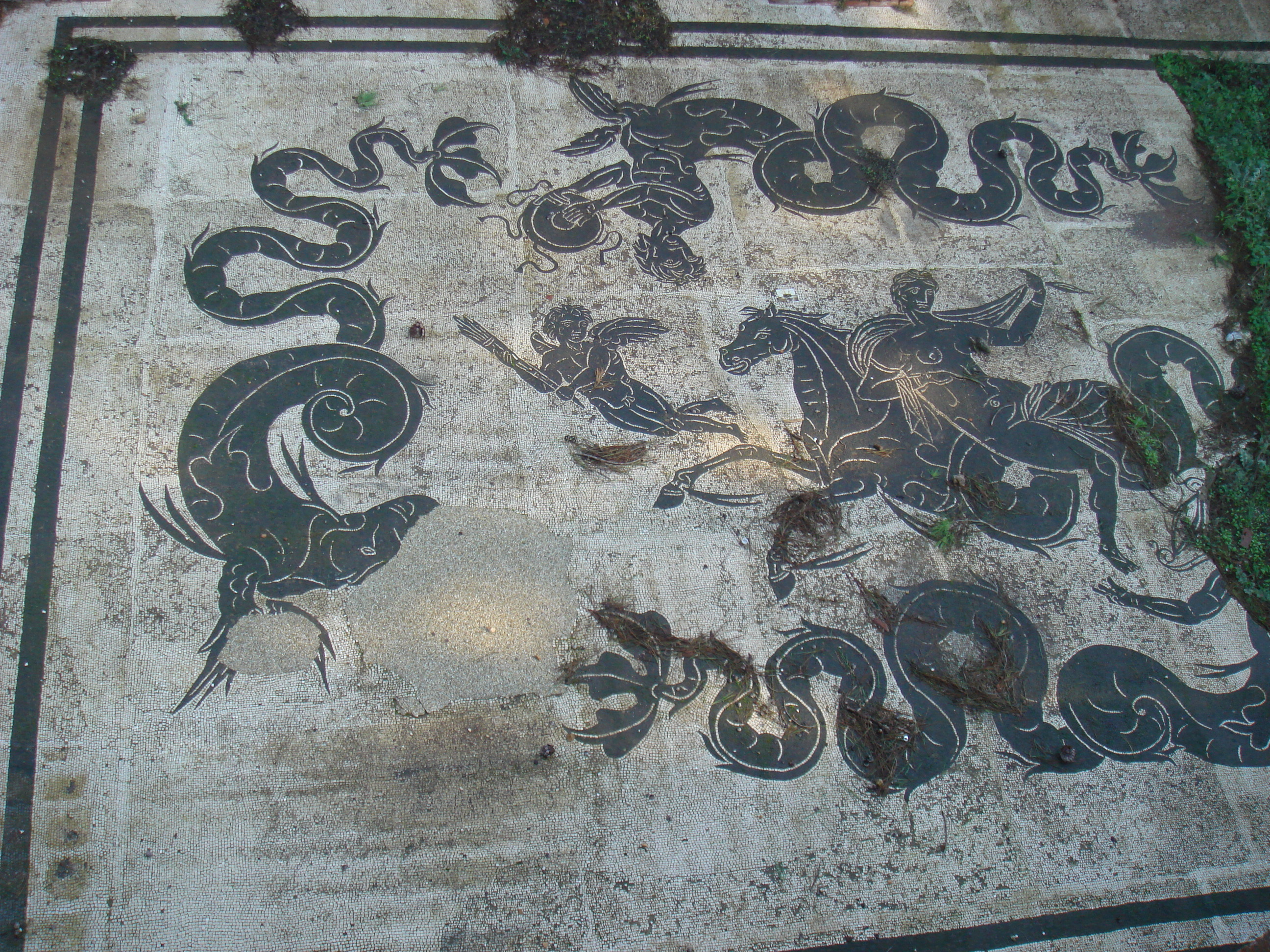 Baths of Neptune, Ostia Antica, Latium, Italy.